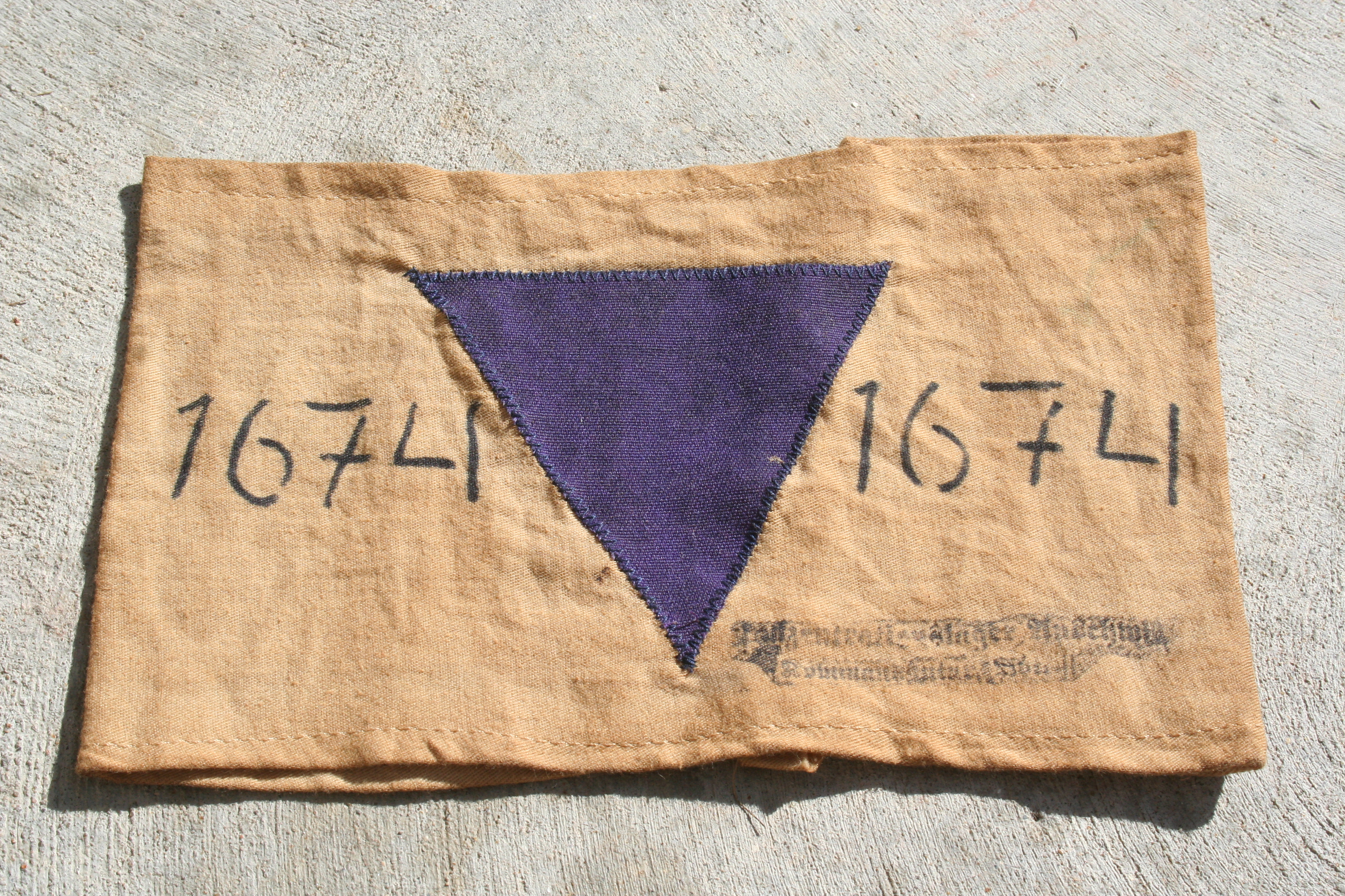 JW Armband